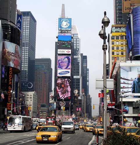 Times Square, New York